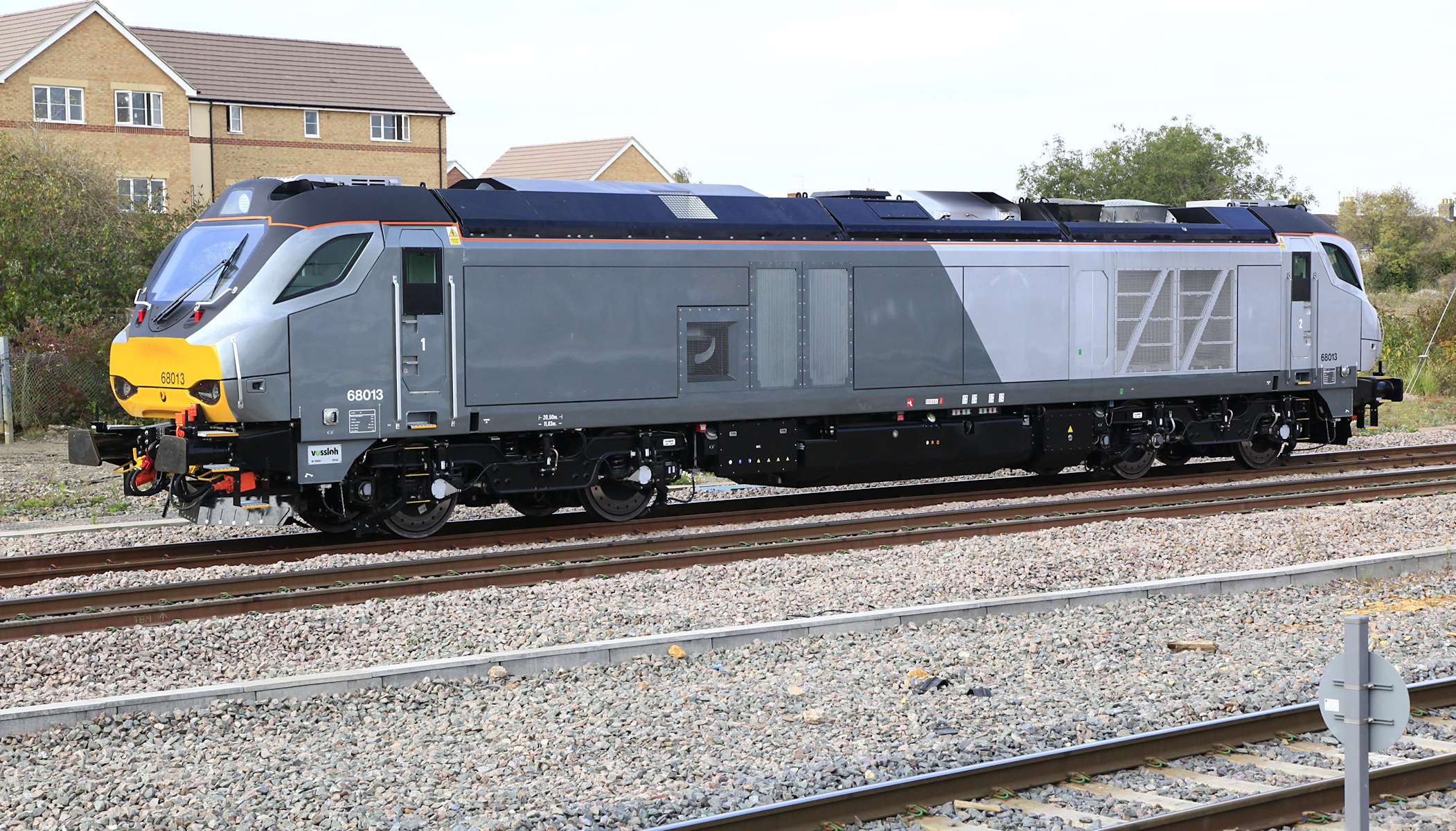 Class 68 diesel-electric locomotive no 68013 at Peterborough, UK